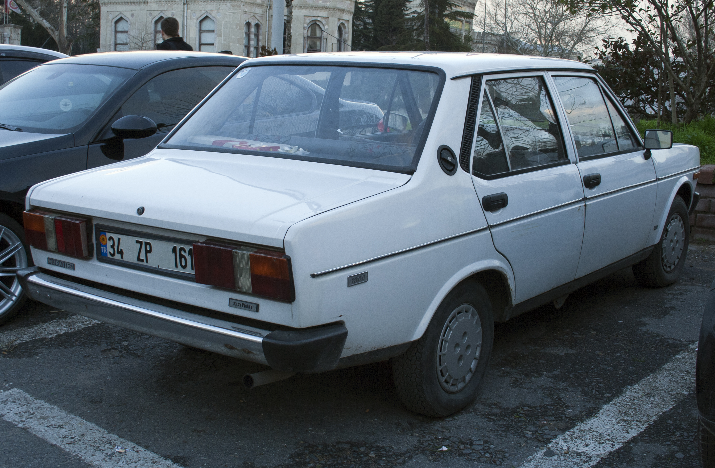 Tofaş Murat 131 Şahin 1300 on the Istanbul University grounds. The 131 was originally sold as the Murat 131, with the "Şahin" name first introduced as an equipment level but later becoming the name of all the cars.